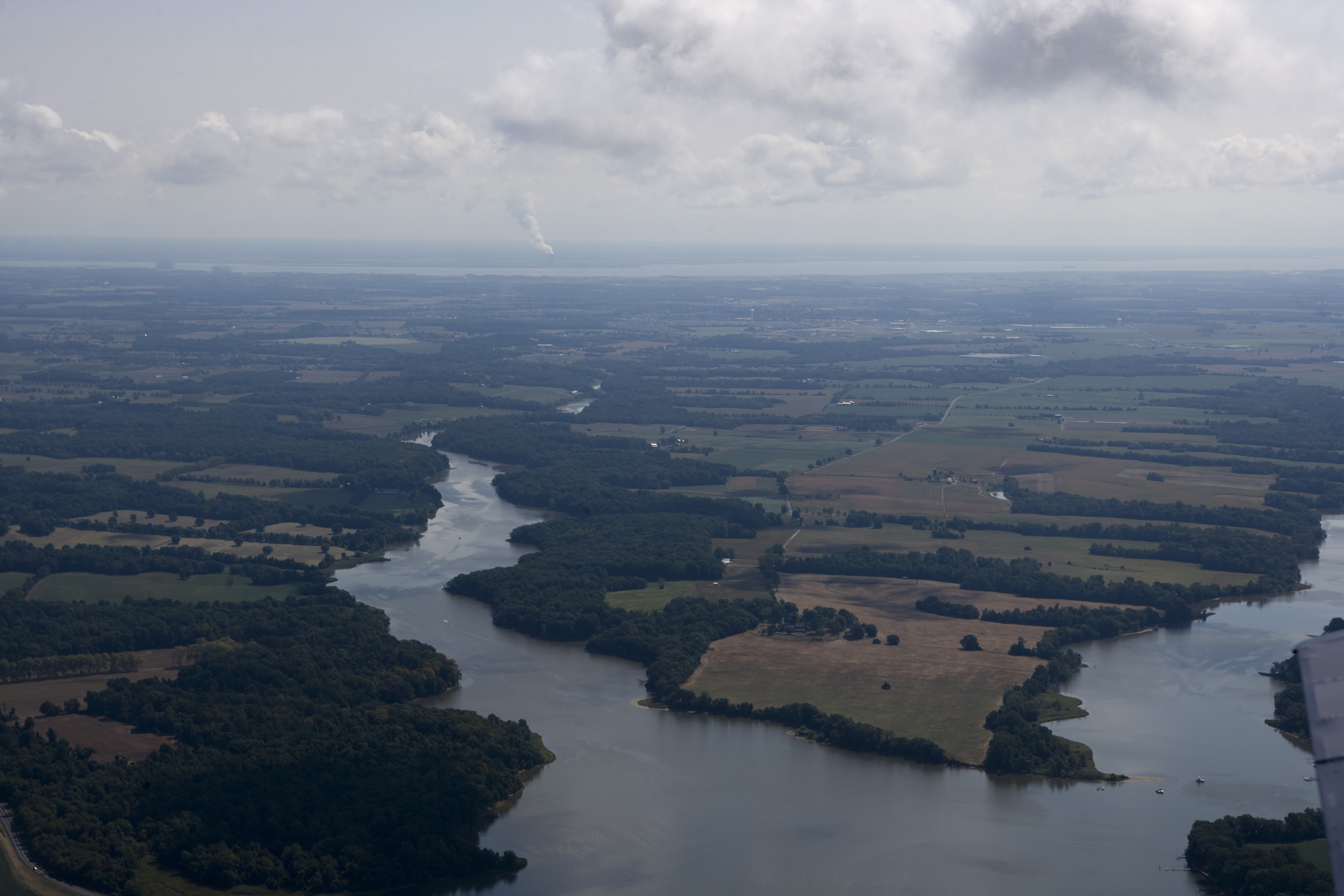 Aerial view of Little Bohemia Creek, Maryland, USA Source Contributor's own work.(Davis Custom Digital, LLC)